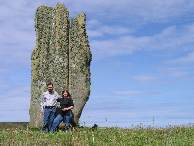 Stone of Setter, Isle of Eday. The Stone of Setter is a striking landmark on the Isle of Eday it lies just a short distance from Mill Loch where a colony of breeding divers can be seen and heard during the spring. There is a good path up the nearby hill to see an impressive chambered tomb and great views to the other islands from the viewpoint on Vinquoy Hill.